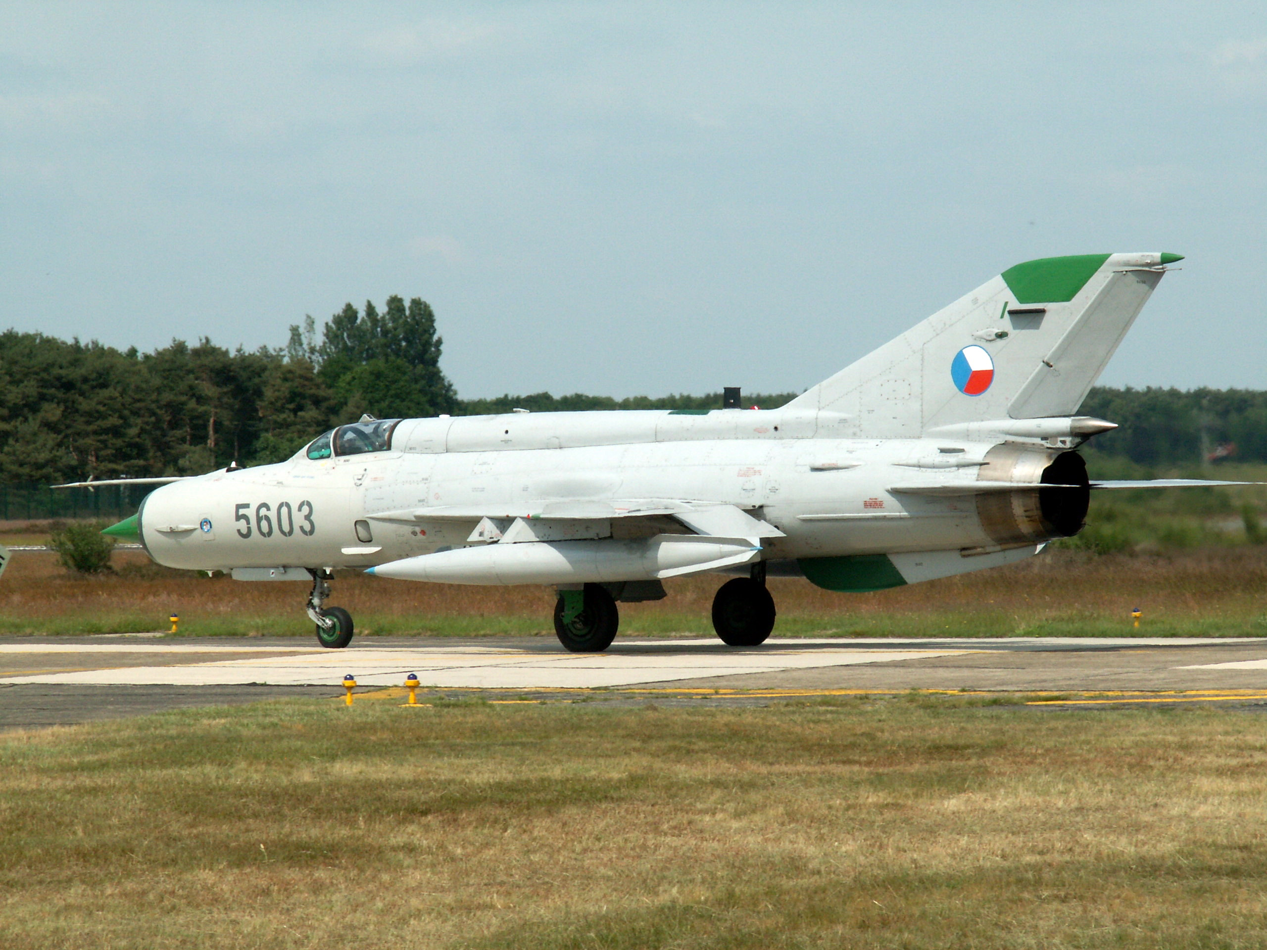 Photographed at a Spottersday 2005 at Kleine Brogel. Czech Air Force